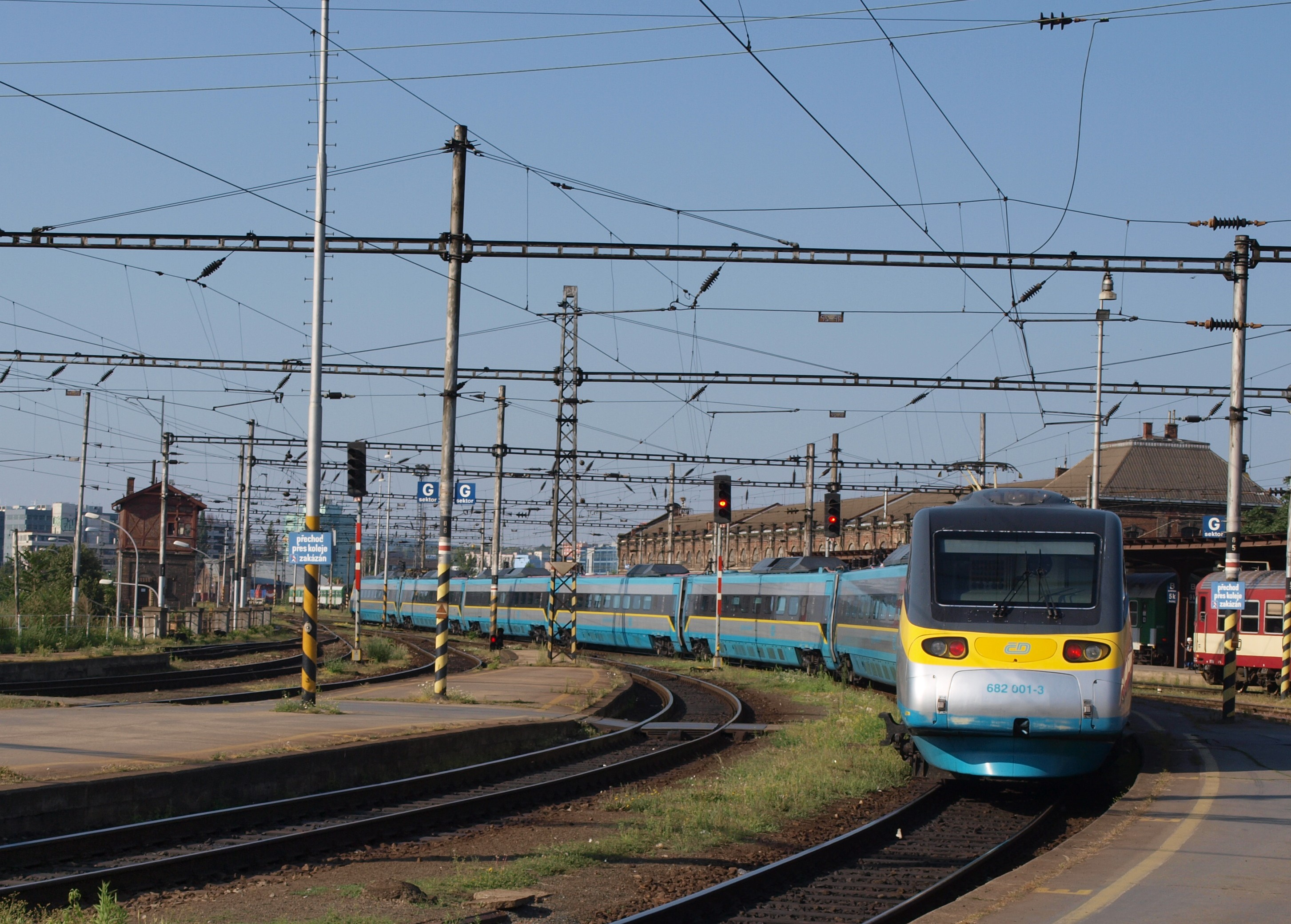 Czech electric multiple unit Class 680 leavs Brno main station